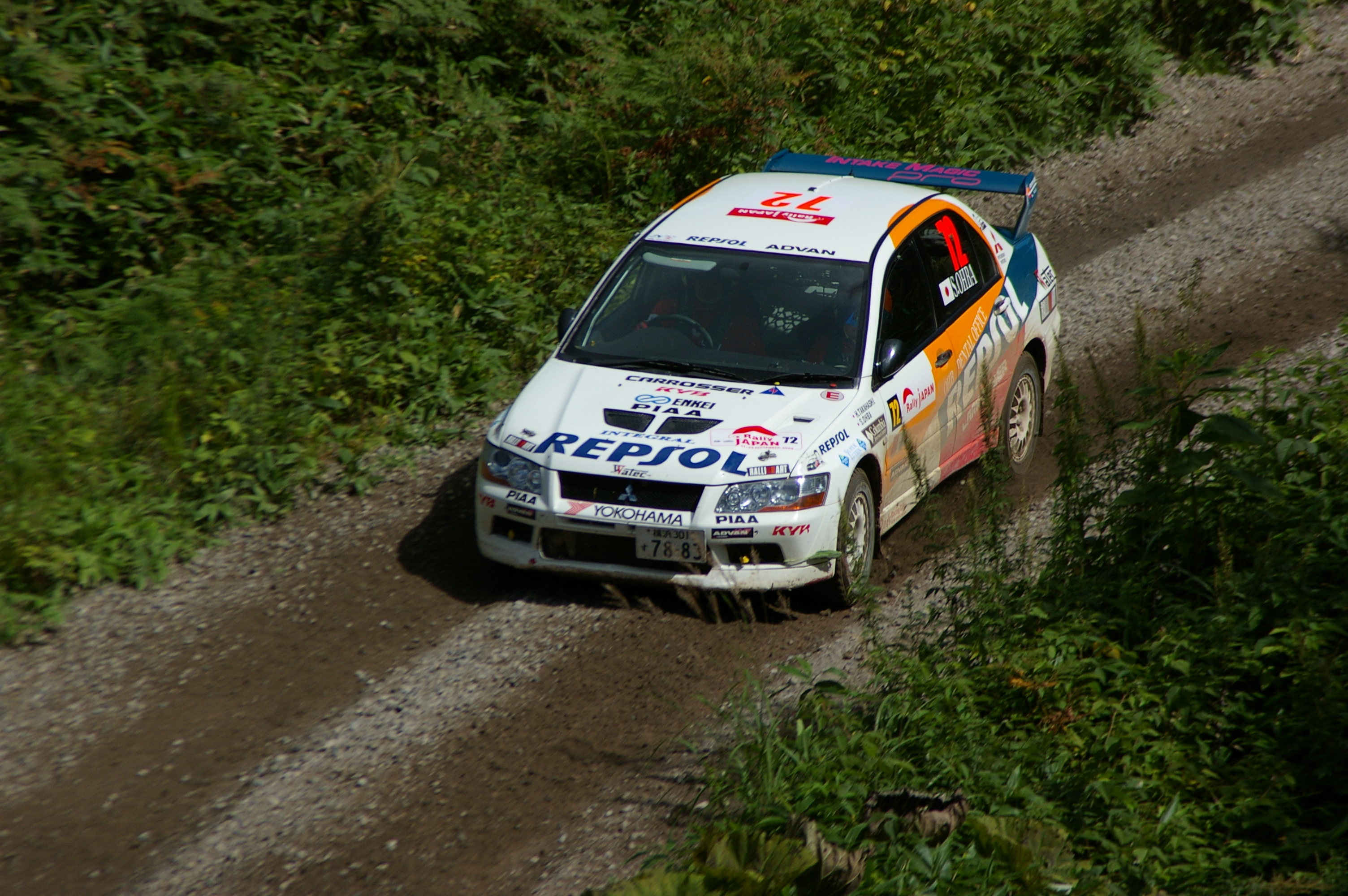 Mitsubishi Lancer Evolution 7 Gr.N Rallycar in RallyJapan2006.